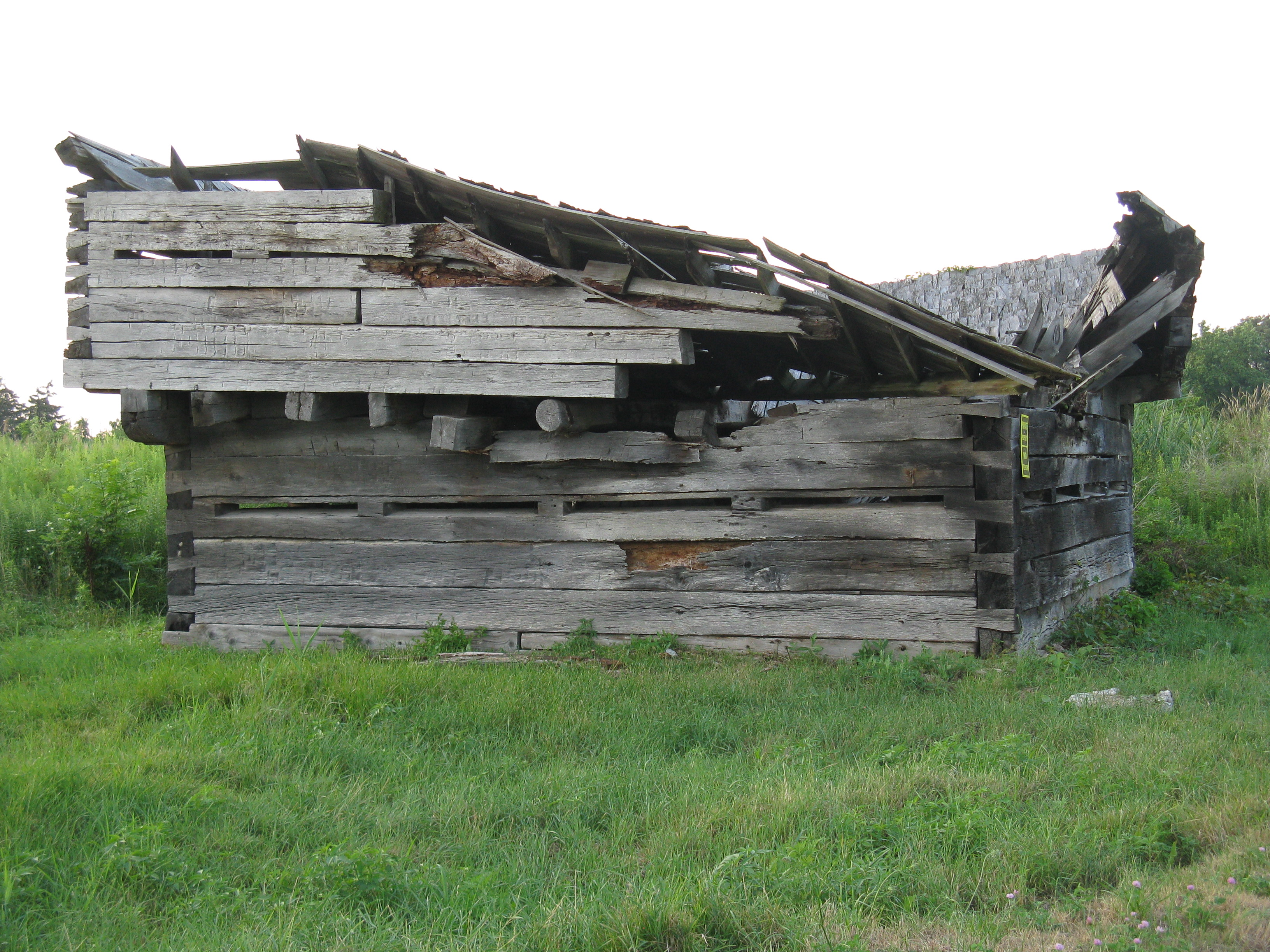 Bois Blanc Island Blockhouse, part of Bois Bland Island Lighthouse and Blockhouse National Historic Site, Boblo Island, Ontario